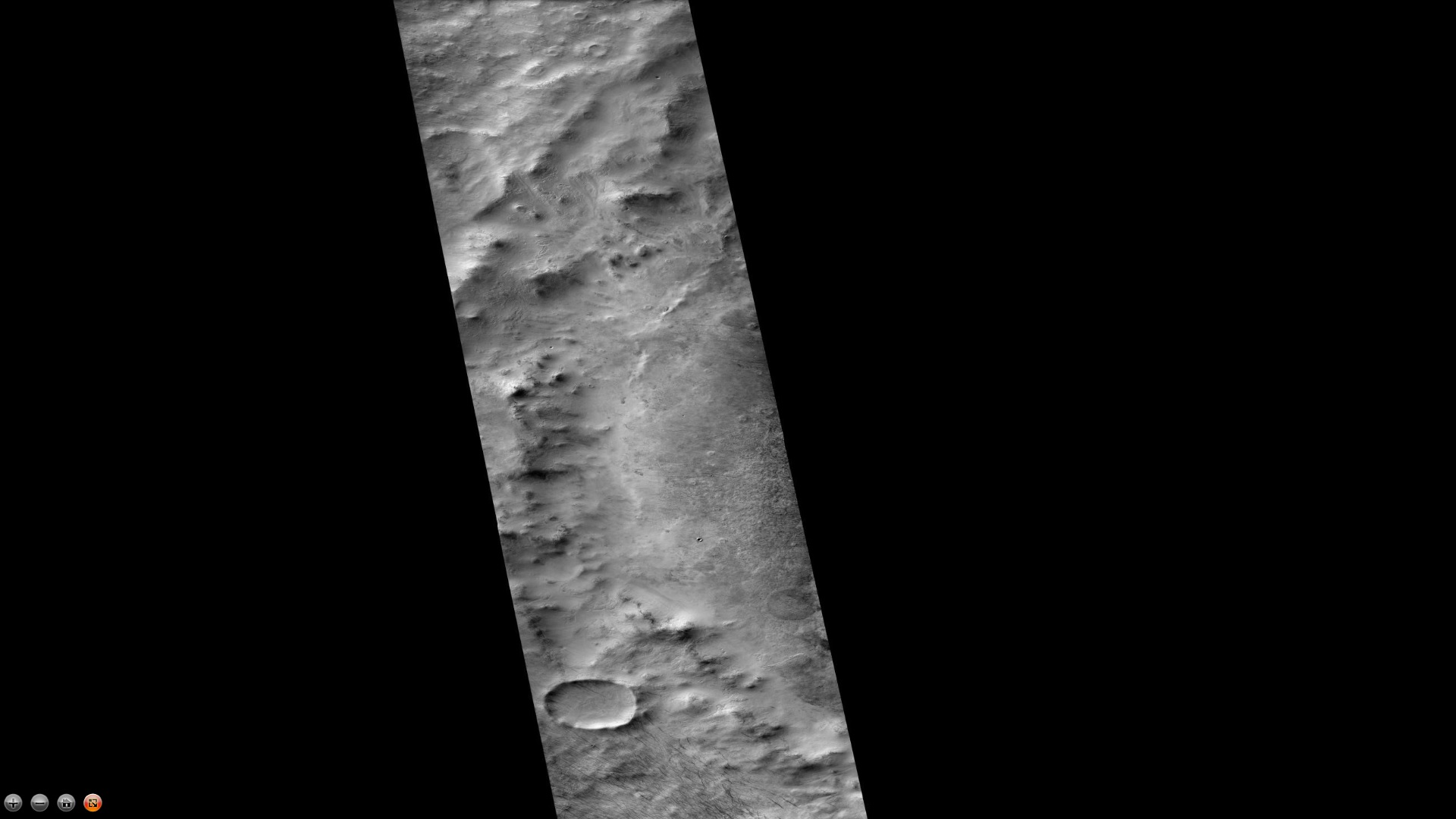 West side of Campbell Crater, as seen by ctx